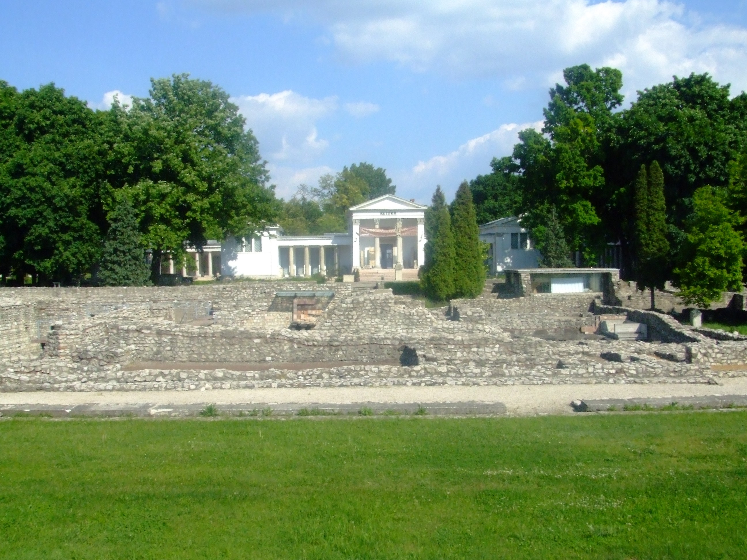 Aquincum was situated on the North-Eastern borders of Pannonia Province within the Roman Empire. The ruins of the city can be found today in Budapest, capital city of Hungary.